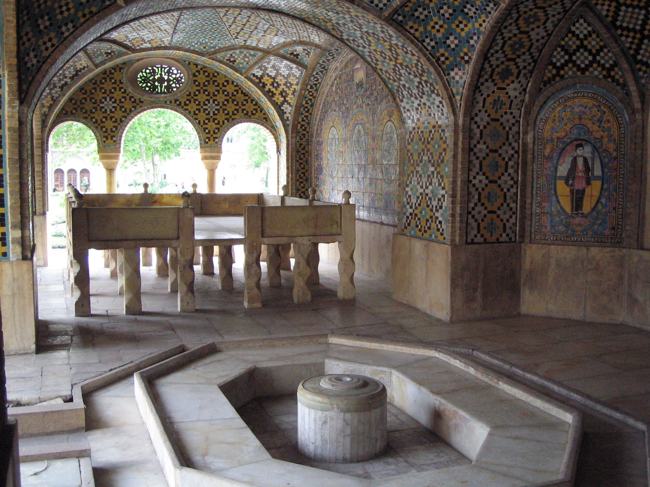 Khalvat-e Karim Khani (Karim Khan retreat) in Golestan Palace compound, Tehran, Iran.